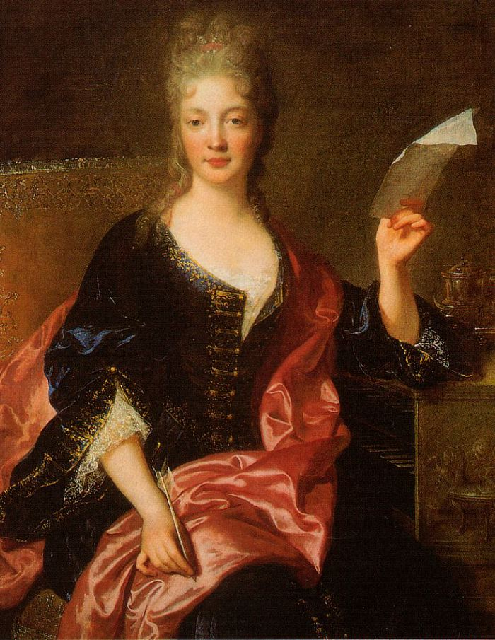 Portrait of Elisabeth Jacquet de la Guerre (1665-1729), French 17th century composer